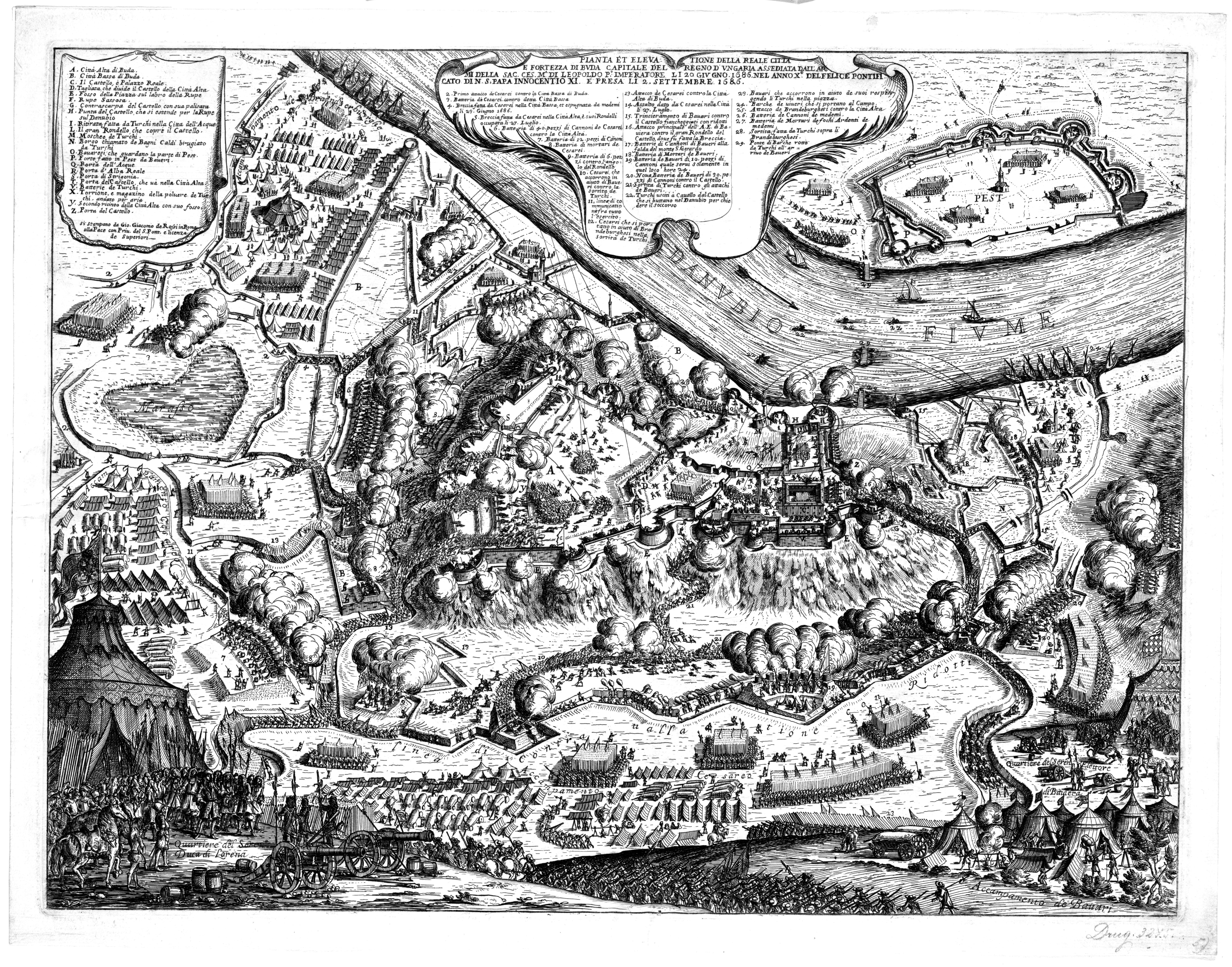 Buda ostroma 1686